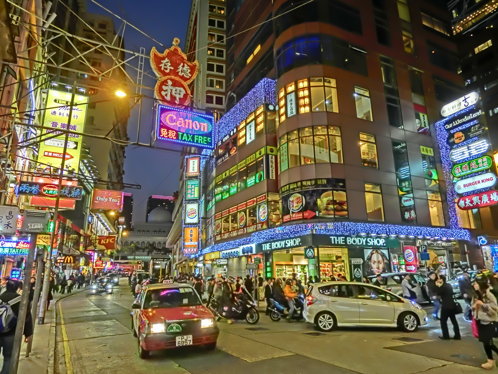 尖沙咀金馬倫道, Cameron Road, Tsim Sha Tsui, Hong Kong